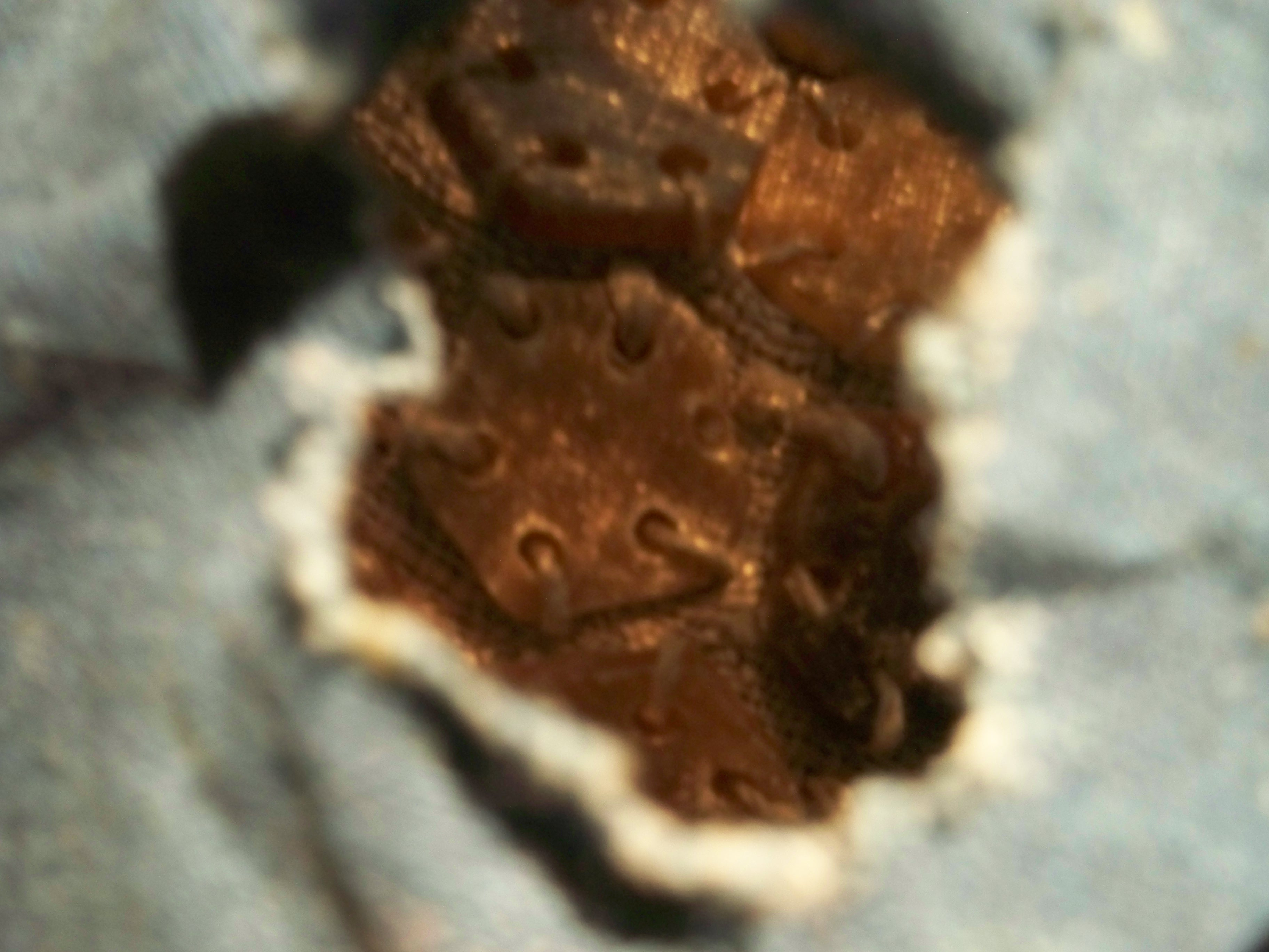 Close up picture of Japanese (samurai) Edo period kikko armor from a kikko katabira or kikko jacket, sewn between two layers of cloth and hidden from view.